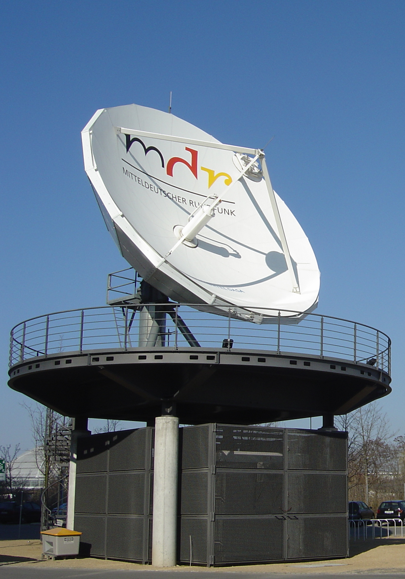 A giant satellite dish of the mdr (Mitteldeutscher Rundfunk) in Germany.